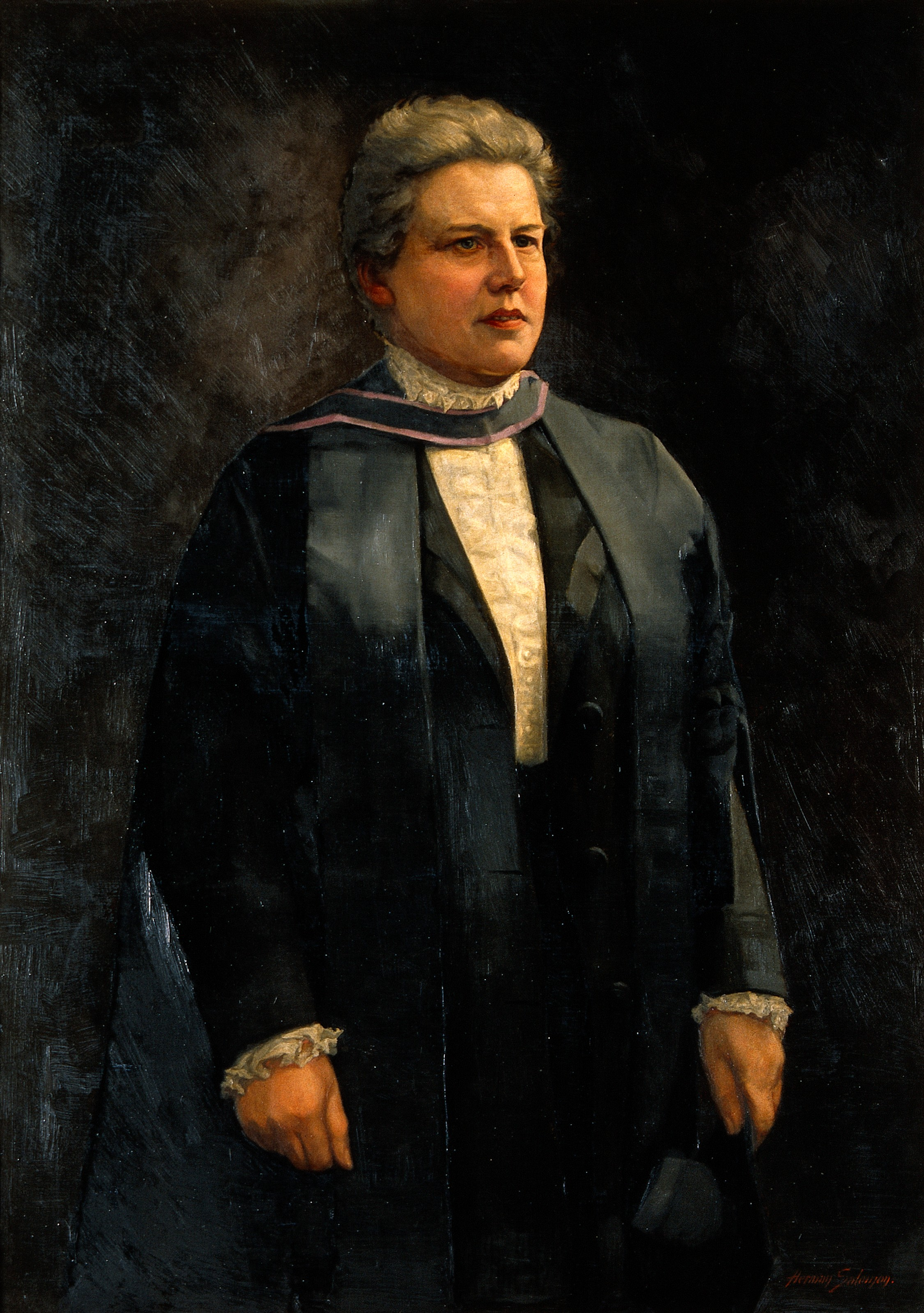 Dame Louisa Brandreth Aldrich-Blake, surgeon. Oil painting by Harry Herman Salomon after a photograph. Iconographic Collections Keywords: Harry Herman Salomon